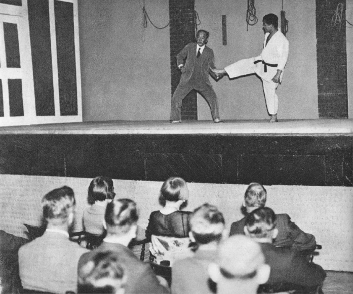 Judo demonstration by Jigoro Kano(left) and Kyuzo Mifune(right).